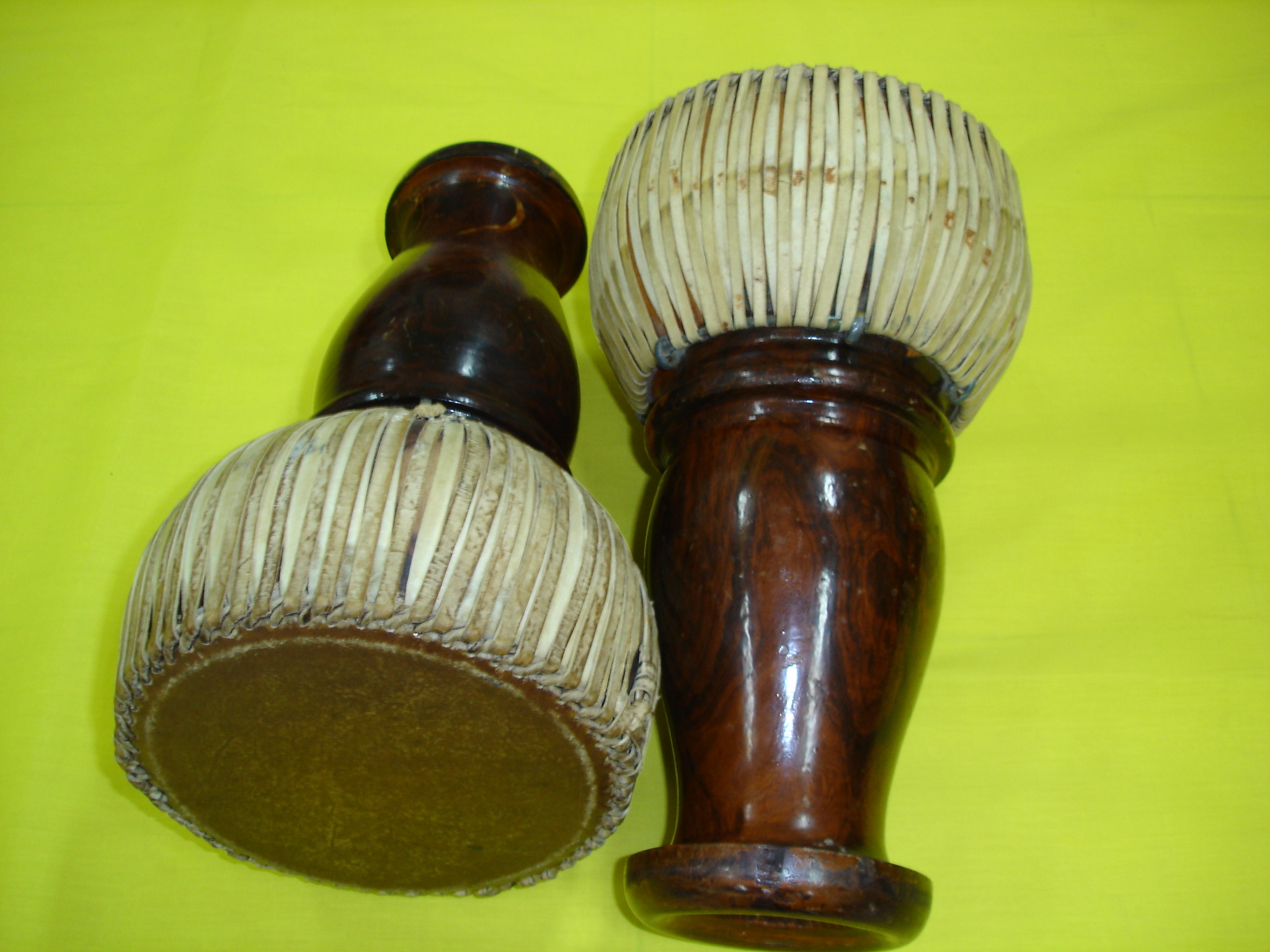 Image of a Thailand drum, Thon chātrī (โทนชาตรี )